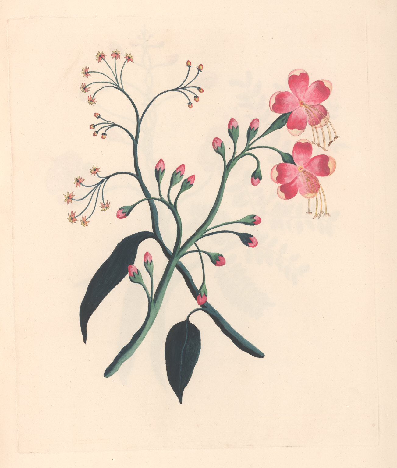 No. I. The Bombay Gossipium; or, silk cotton tree. Flowers of the silk cotton tree described in table of contents: "It bears a Flower without Smell, with long Filaments of great Fineness." Behind the silk cottom tree flowers are the flowers of the wild ipecacuanha.